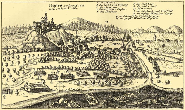 The Siege of Nyitra (1664)